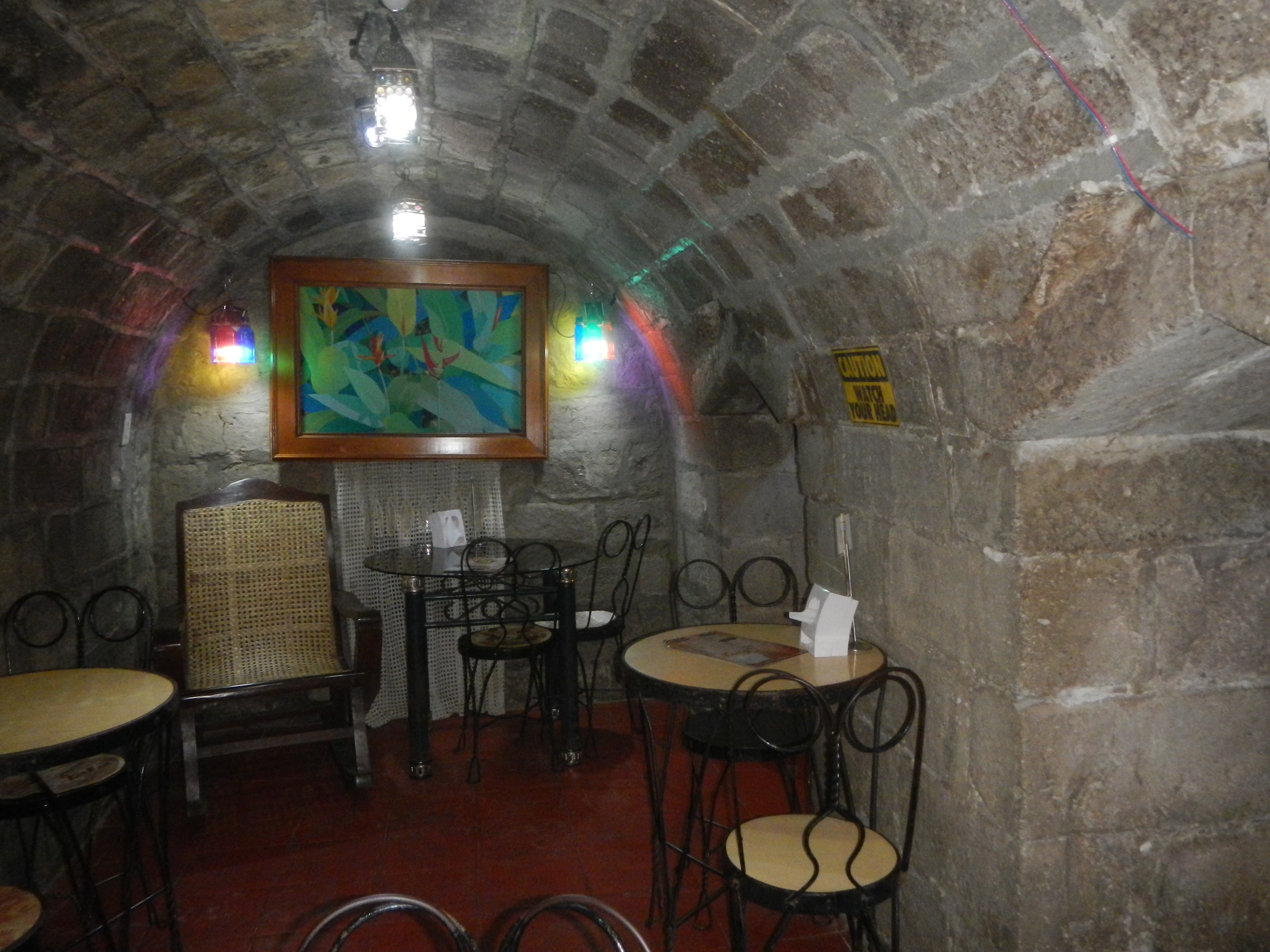 Menus in the Philippines Interior of the Apolonio Cafe and Restaurant Bahay na Bato 1859 in Bonga Menor, Bustos, Bustos, Bulacan; Perez Ancestral House (Bahay na Bato, Cafe Apolonio, Bustos, Bulacan) in Cenon Perez street, Barangay Bonga Menor, Bustos, Bulacan, National Cultural Heritage Act of 2009 Ancestral houses of the Philippines, (one of prime Bustos' Historic, Ancestral houses & other stone houses famous for its intricate stone carving from Spanish times, built in the mid-1800s or 1858 has the distinctive Bustos look of Baroque-style carved stone corner pilasters and columns extending up to the ceiling with wood kept to a minimum in the second storey; beside Bonga Mayor, Bustos, Bulacan, Province (in C.L. Hilario Highway corner General Alejo Santos Highway, Bustos-Angat, Bulacan connected from and to San-Rafael-Bustos-Plaridel-Balagtas by-pass road, Highway of the ]North Luzon Expressway) (Note: Judge Florentino Floro, the owner, to repeat, Donor Florentino Floro of all these photos hereby donate gratuitously, freely and unconditionally all these photos to and for Wikimedia Commons, exclusively, for public use of the public domain, and again without any condition whatsoever).